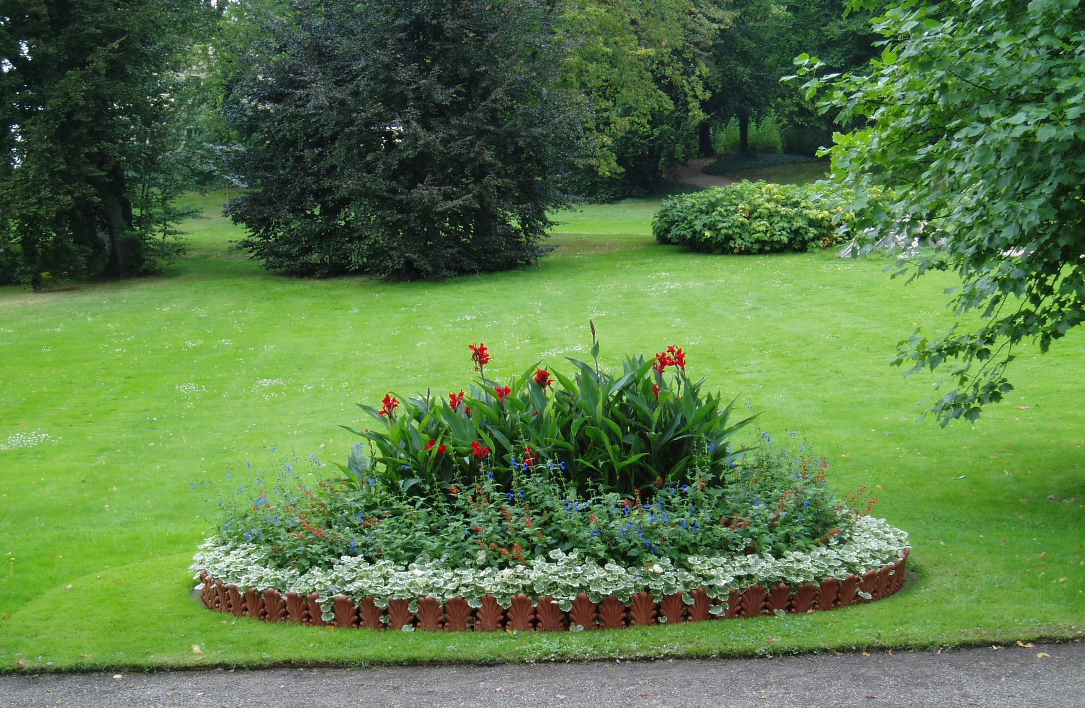 Flower basket, palace ground Glienicke, Berlin, Germany